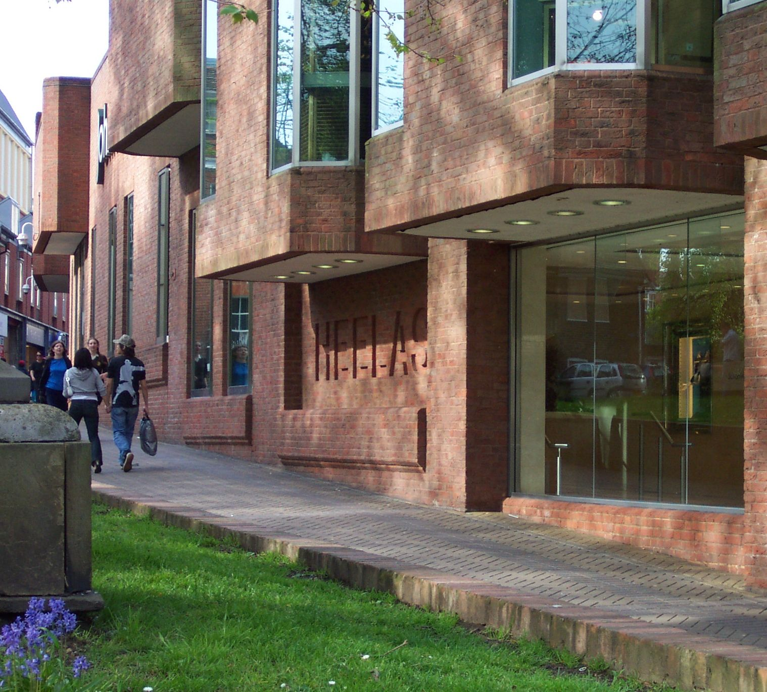 The side elevation of the John Lewis department store in Reading's Chain Street. Note the Heelas name in the brickwork. For more information, see John Lewis Reading.